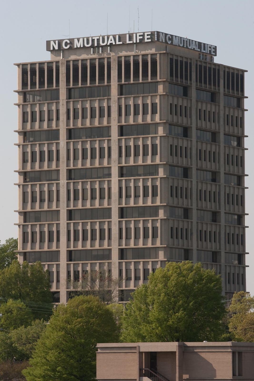 View of the North Carolina Mutual Life Insurance Company Building in downtown Durham, North Carolina, USA.